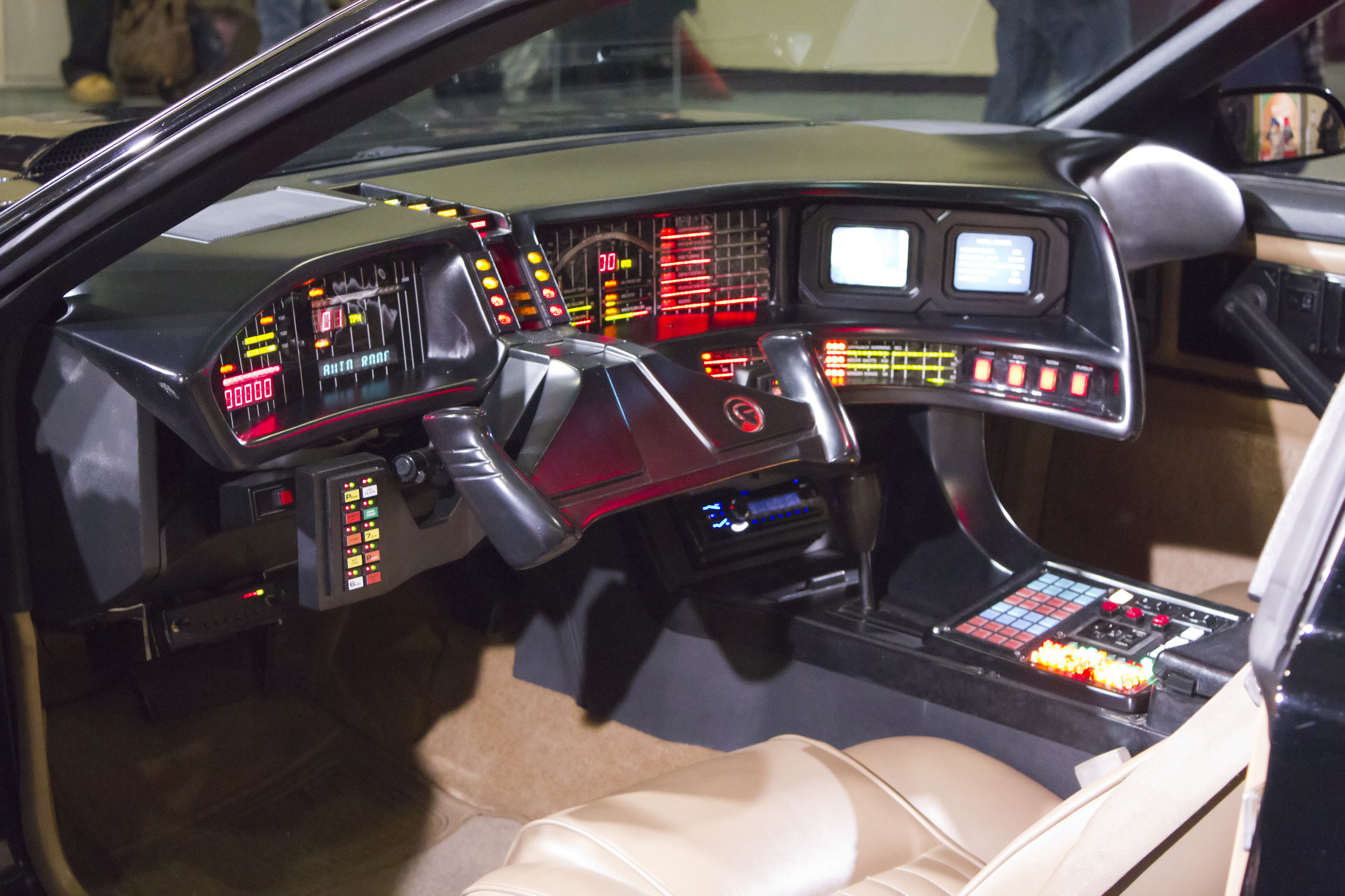 Taken at the 2011 Canadian International Auto Show